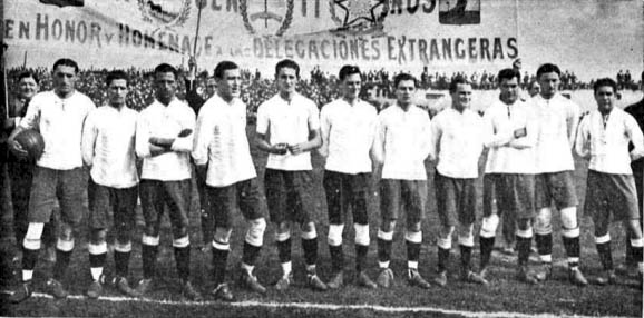 Argentina team that beat Uruguay. Players are: Pedro Calomino, Julio Libonatti, Blas Saruppo, Adolfo Celli, Raúl Echeverría, Américo Tesorieri, José A. López, Emilio Solari, Miguel Dellavalle, Florindo Bearzotti, Vicente González.